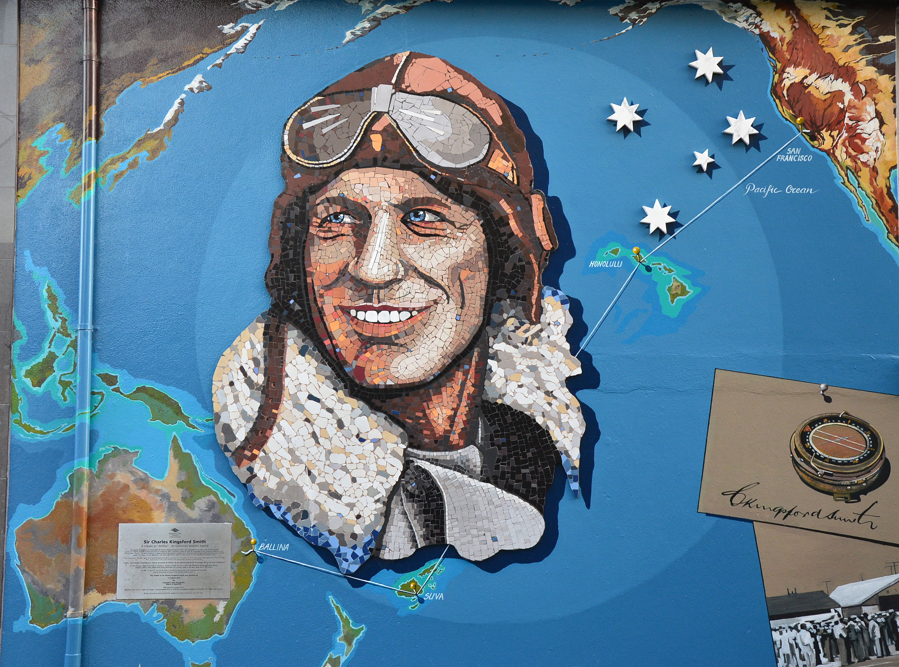 Charles Kingsford Smith Tribute, Gardeners Lane, Kingsford, Sydney